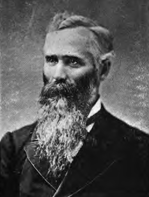 George Lemuel Woods